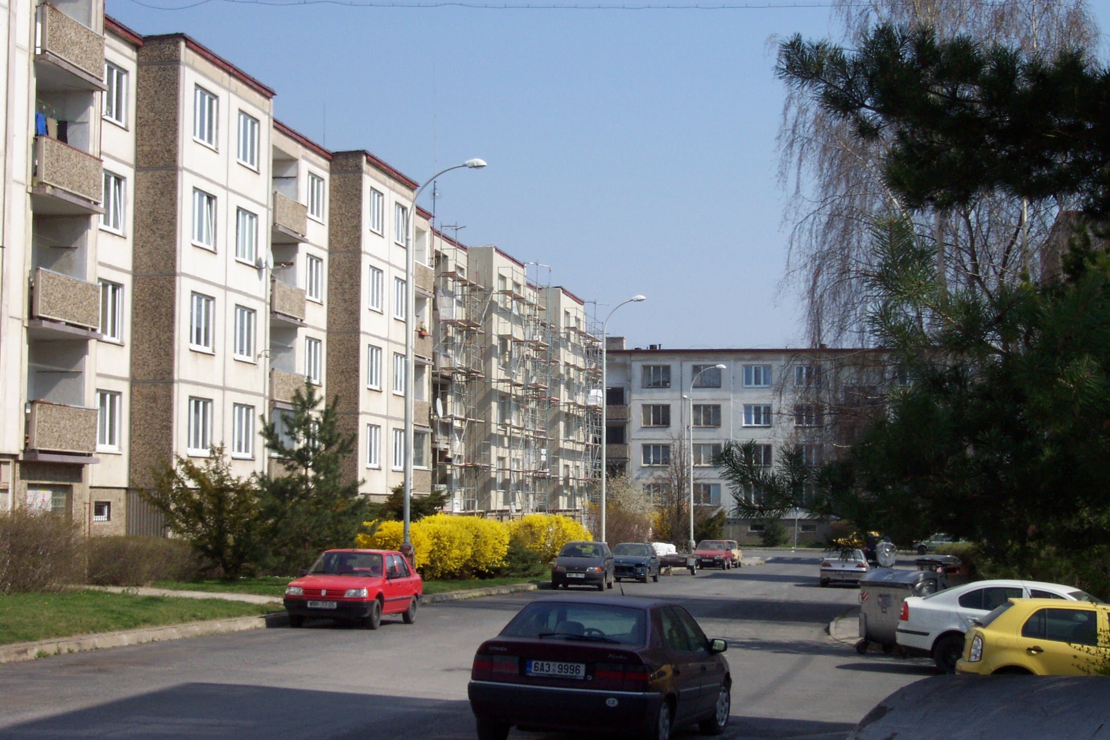 An esteate in Praha Zličín